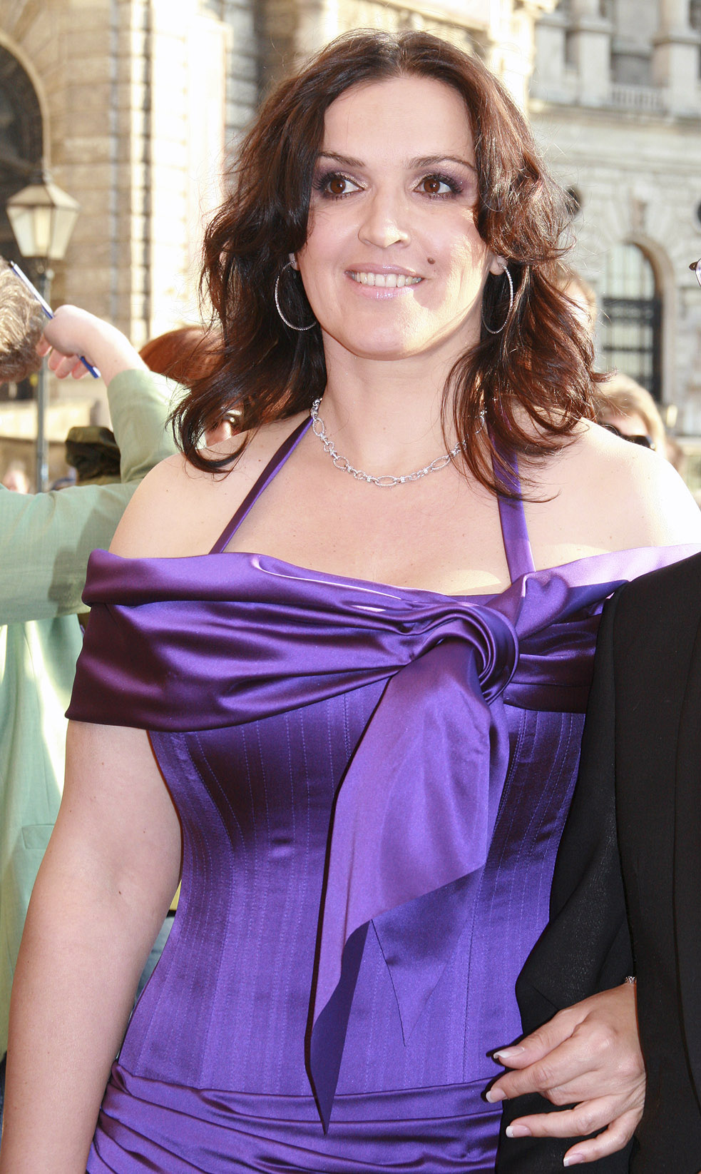 Presenter Barbara Karlich at the Romy TV awards (Hofburg Imperial Palace in Vienna)